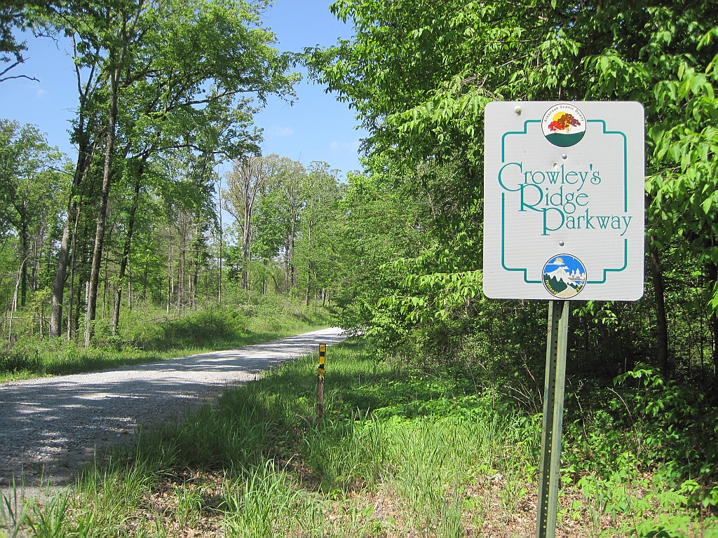 Crowley's Ridge Parkway in Lee County, Arkansas